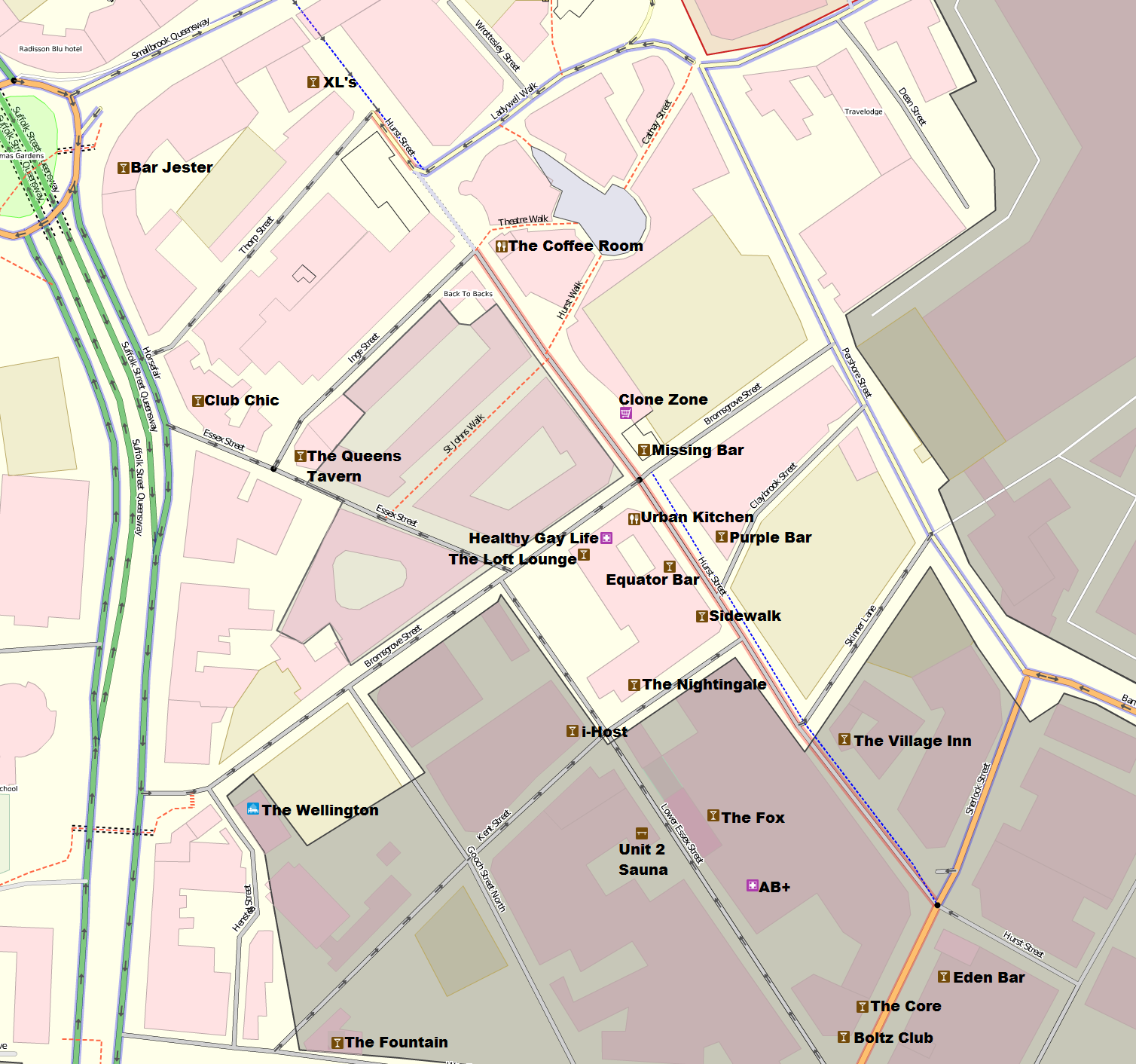 A map of Birmingham Gay Village with labels to identify the venues This map of Birmingham was created from OpenStreetMap project data, collected by the community. This map may be incomplete, and may contain errors. Don't rely solely on it for navigation.